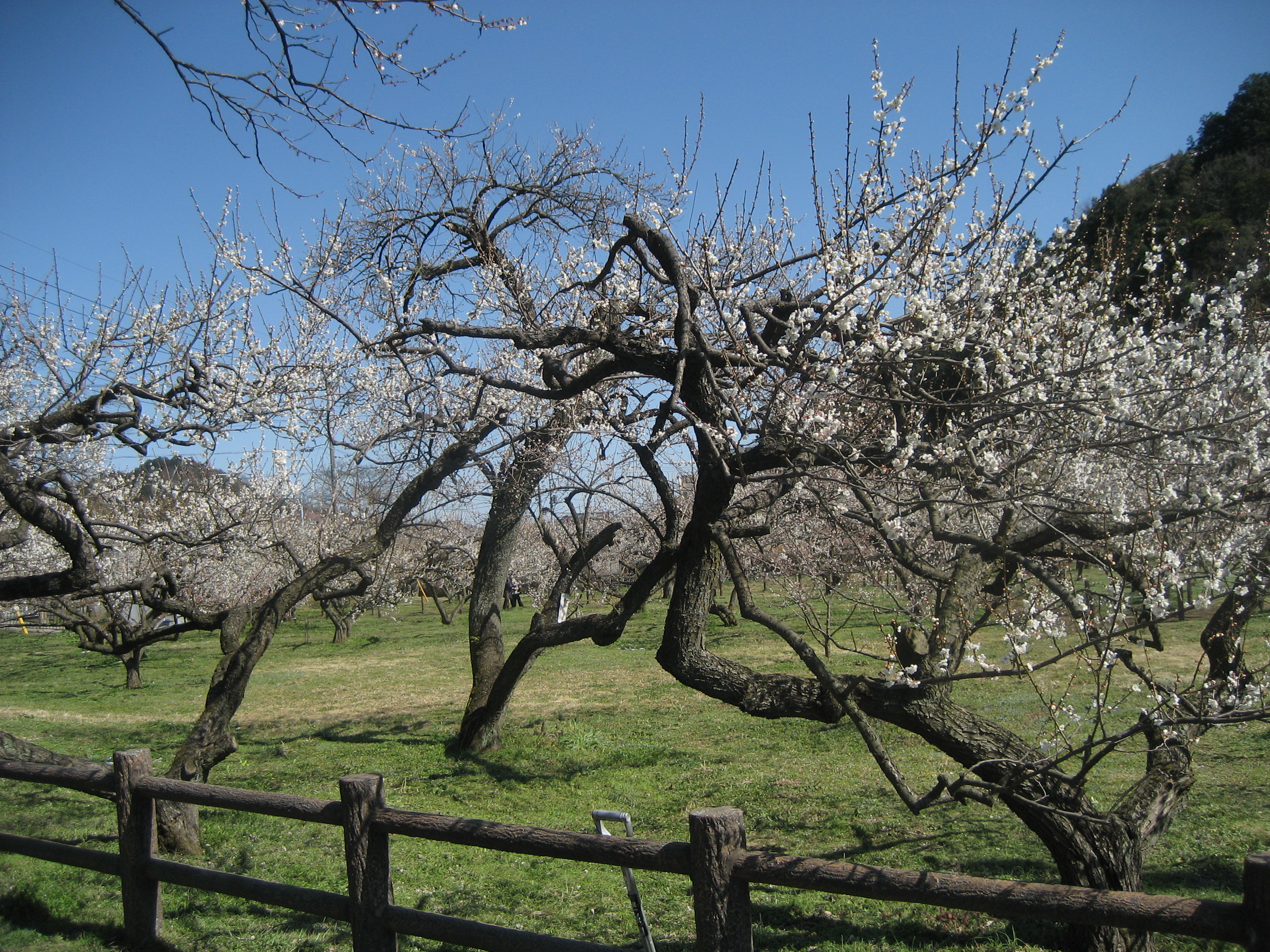 Ogose Plum Grove